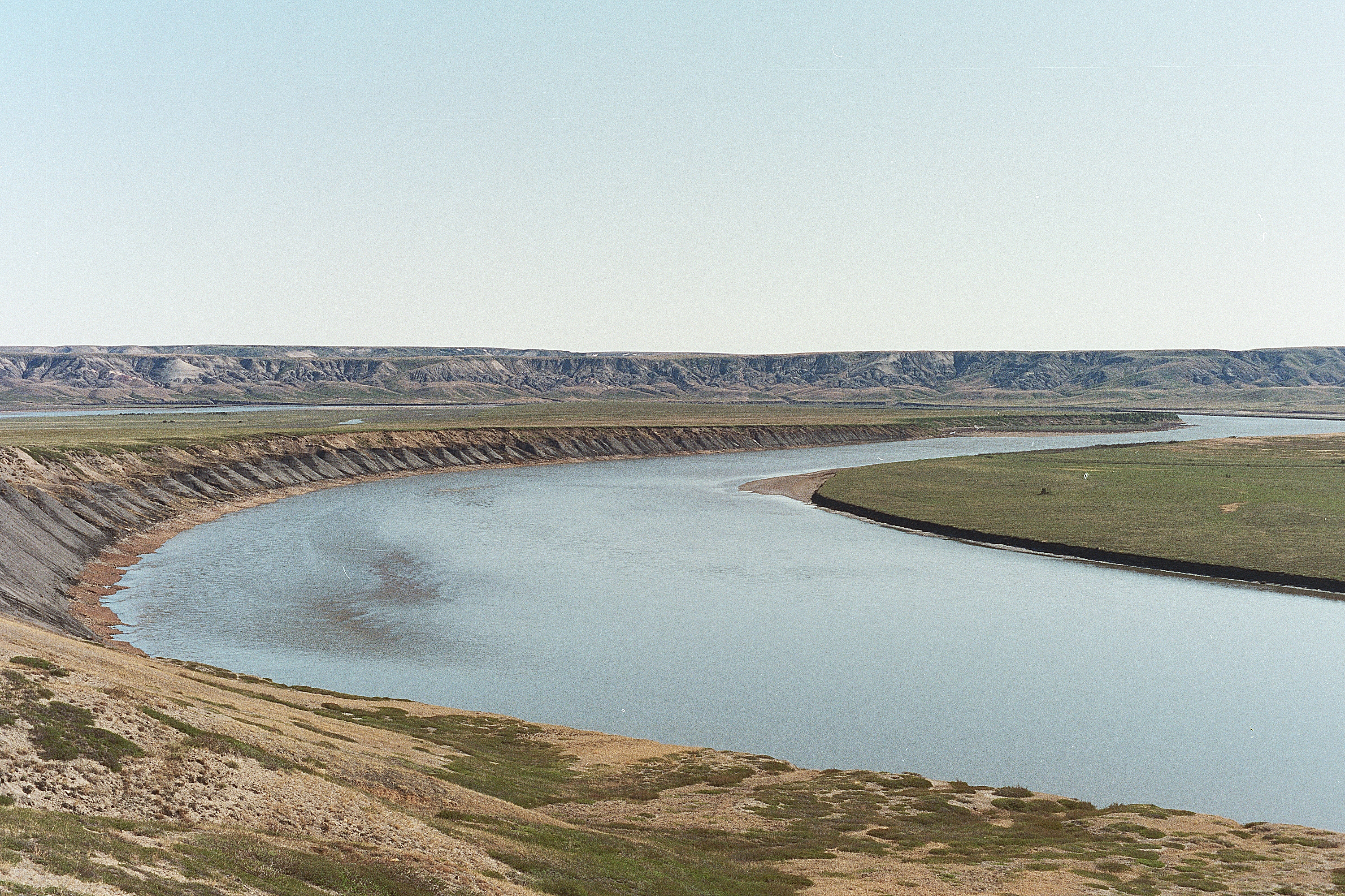 View of a large curve of Horton River, Nunavut, Canada